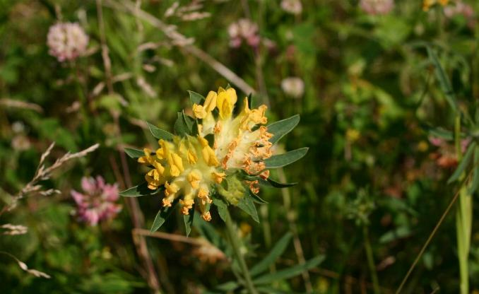 Anthyllis vulneraria: Close-up on flower head.